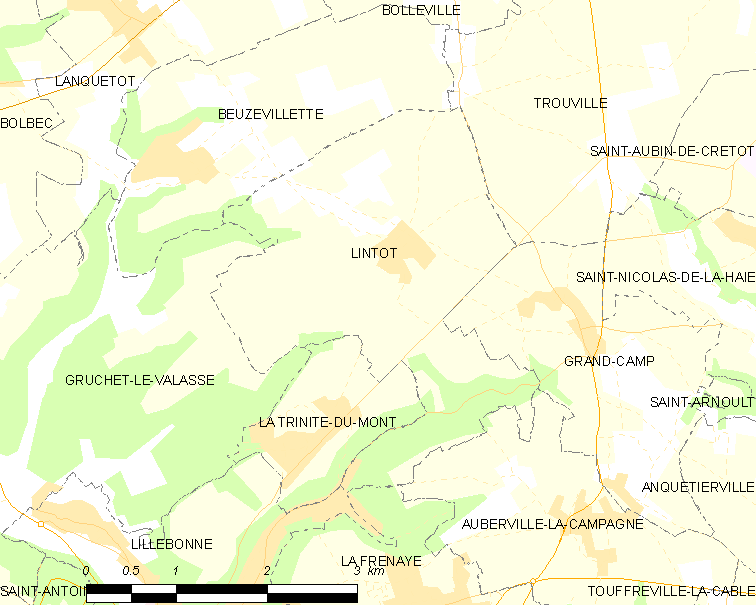 Map of French municipality Lintot